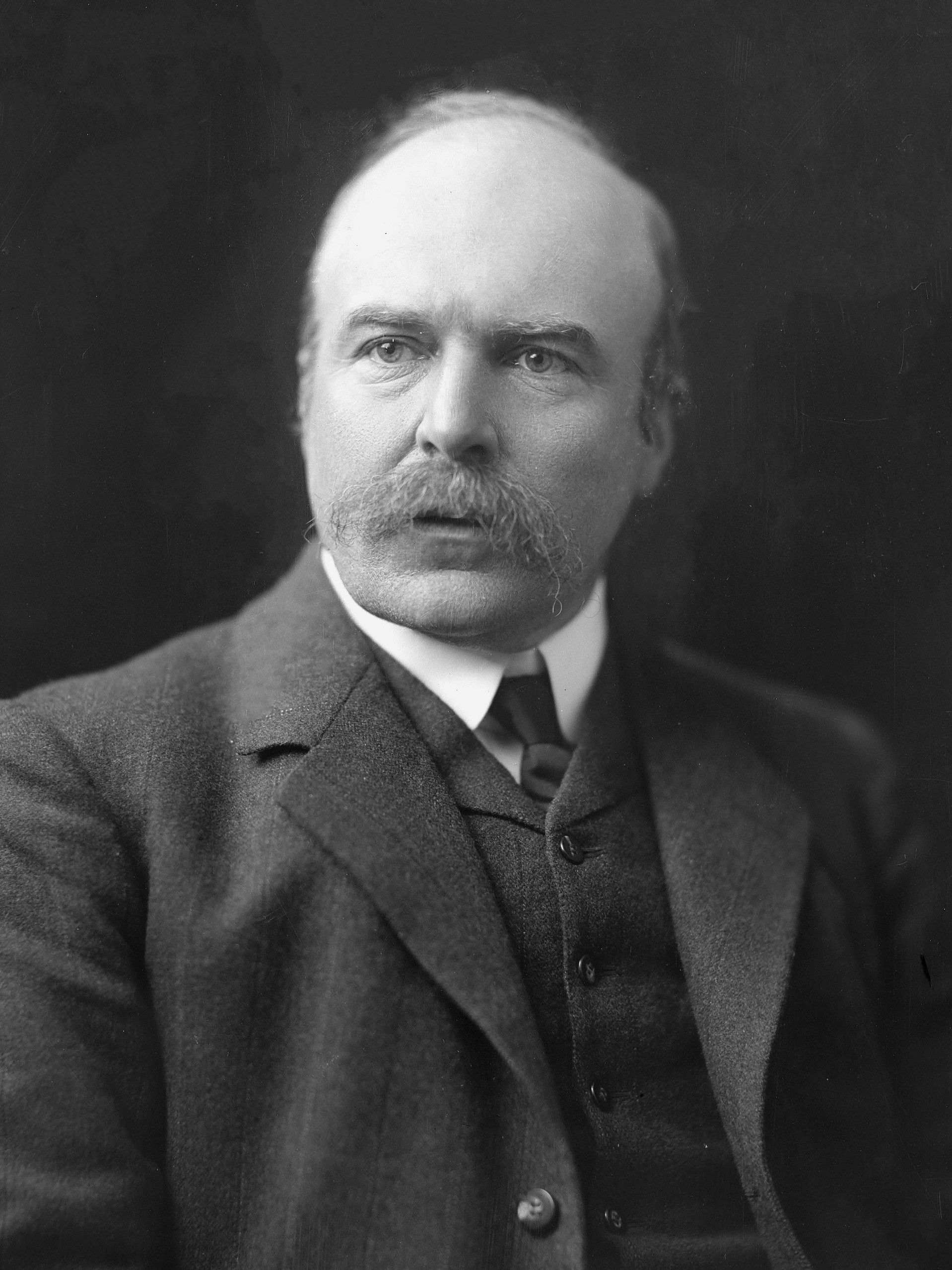 A portrait of Robert McNab in 1908, taken by S P Andrew Ltd.